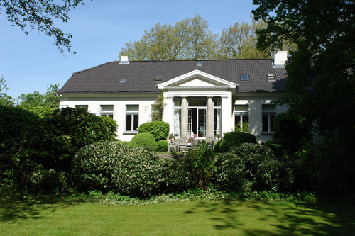 Kastorf Manner 2009